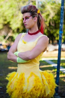 Jessie Graff in her Chicken Costume from the live action chicken fight.